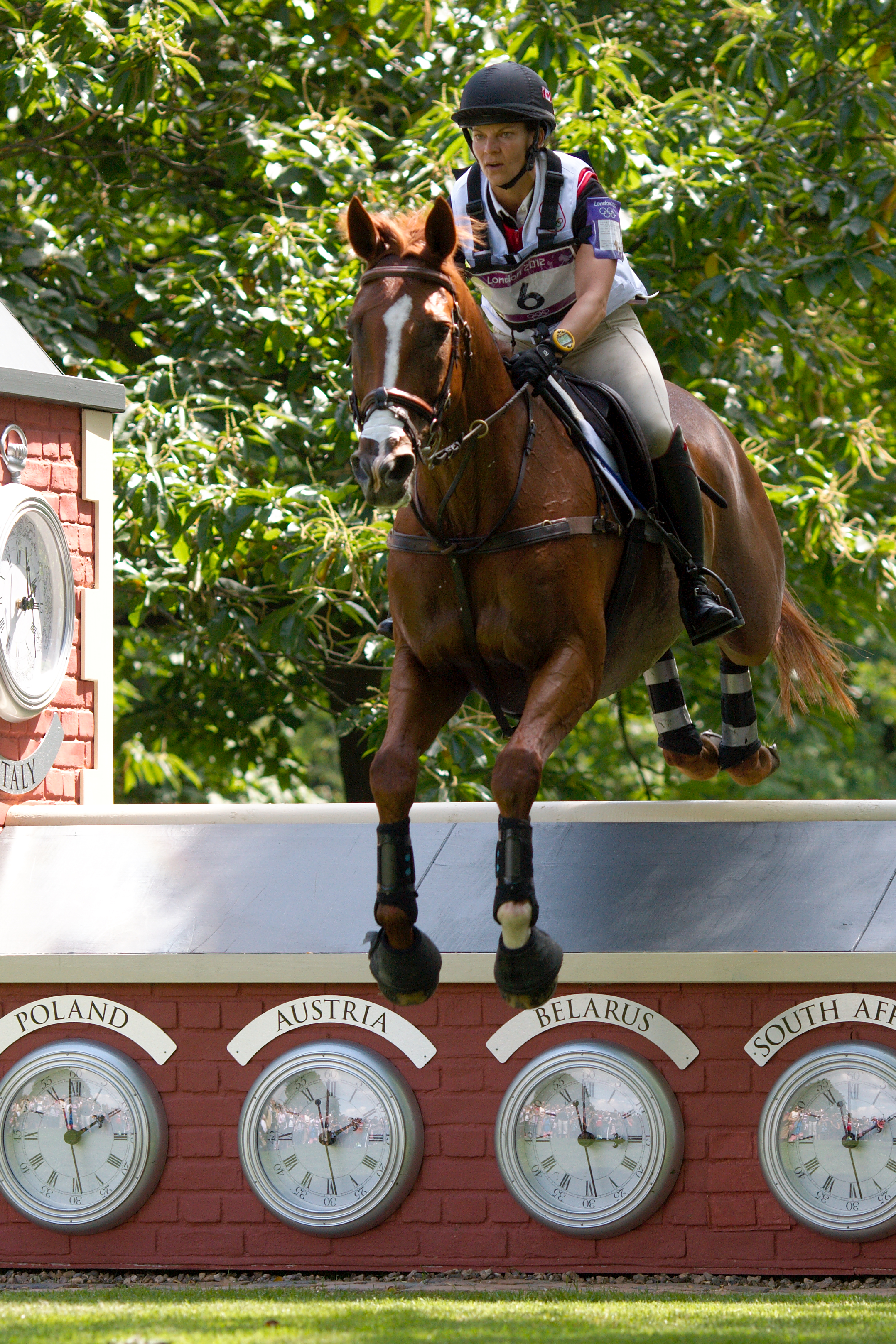 Michelle Mueller and Amistad, competing for CAN, at fence 25, during the cross-country phase of the Eventing during the 2012 Olympic Games in Greenwich Park, London.